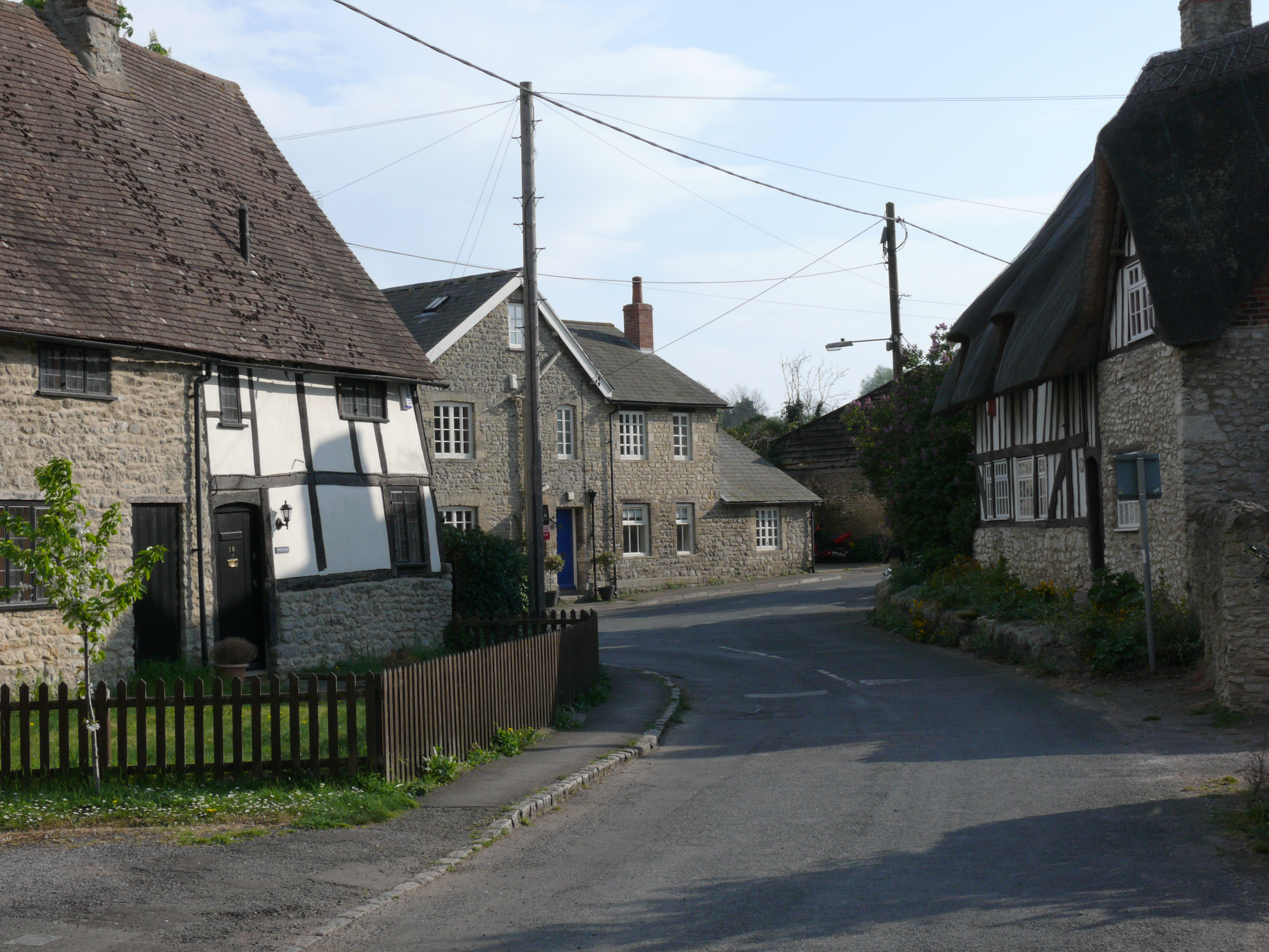 A street in South Hinksey, Oxfordshire